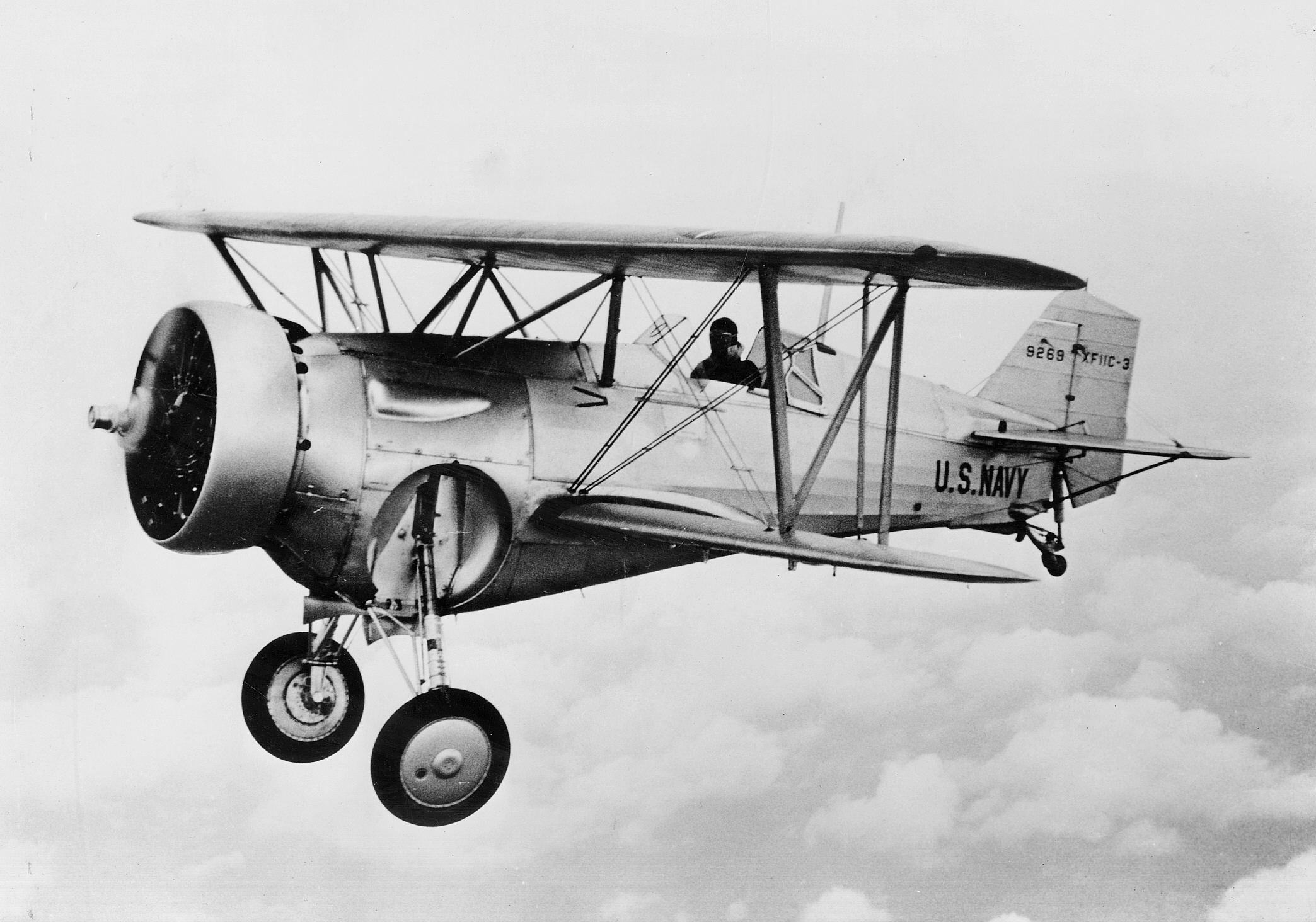 Curtiss XF11C-3 Goshawk pictured during a test flight.